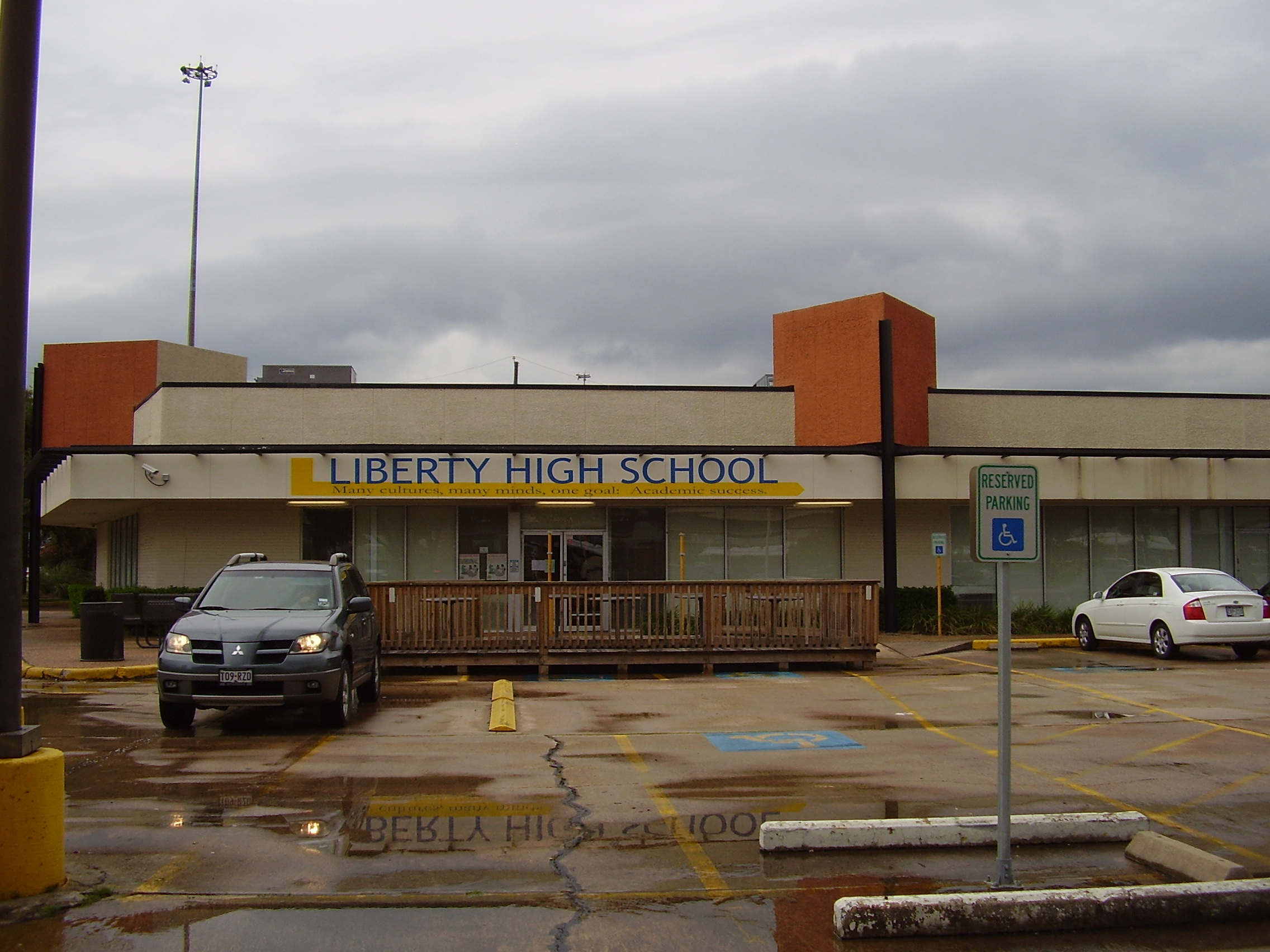 Liberty High School